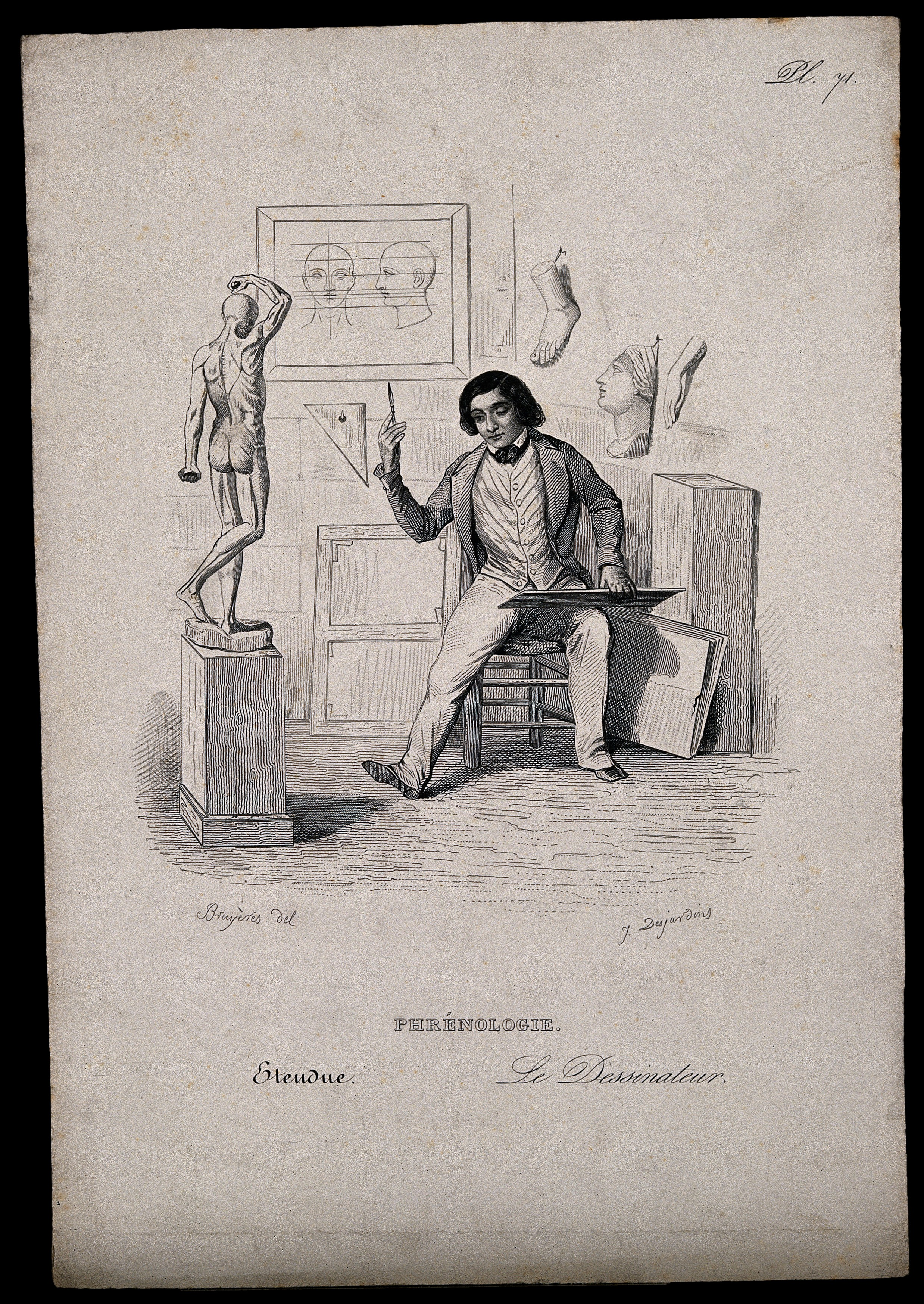 An artist measures a model of the human body from a distance with one eye shut; representing the faculty of perception in extended space in phrenological classification. Steel engraving by J-I-L. Desjardins, 1847, after H. Bruyères. Iconographic Collections Keywords: Hippolyte Bruyères; Joseph-Isnard-Louis Desjardins